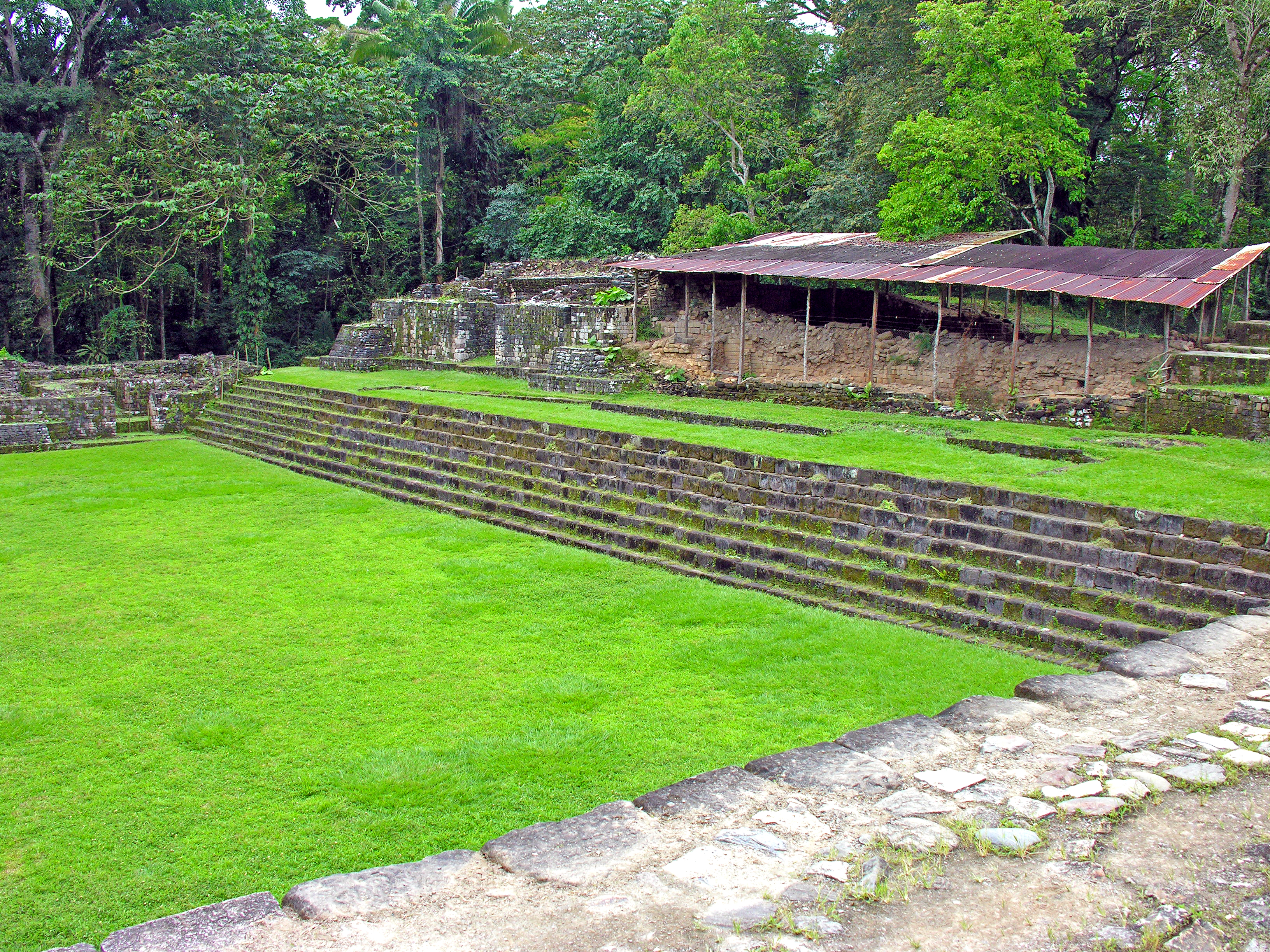 Archeologists are still working at the site in the area of the acropolis. They appear to have dug tunnels between structures 1B-3 and 1B-4.